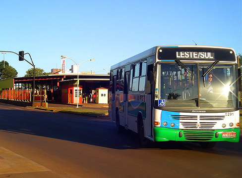 It's my work and I'm releasing to the public domain. The link for the original image